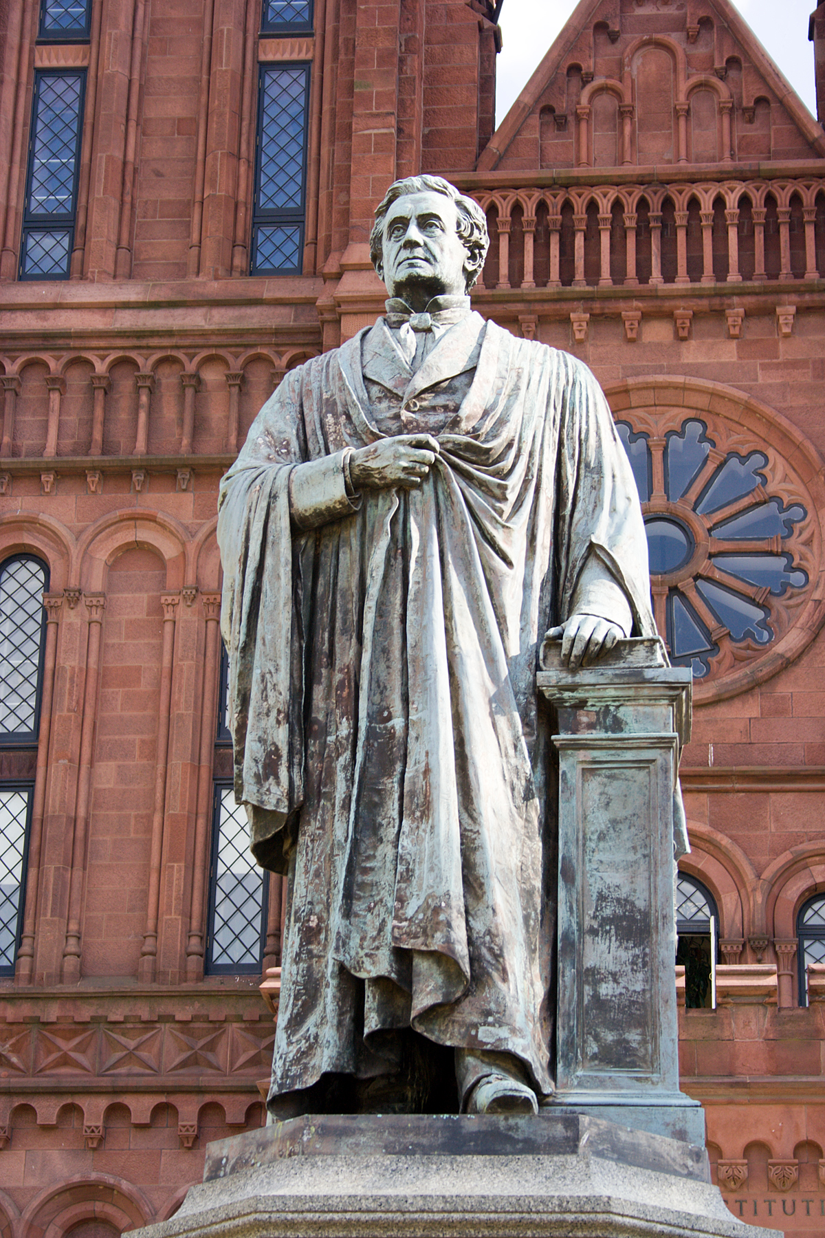 Statue of Joseph Henry (17 December 1797 – 13 May 1878), a Scottish-American physicist who served as the first Secretary of the Smithsonian Institution, in front of the Smithsonian Institution Building (Smithsonian Castle) in Washington, D.C.